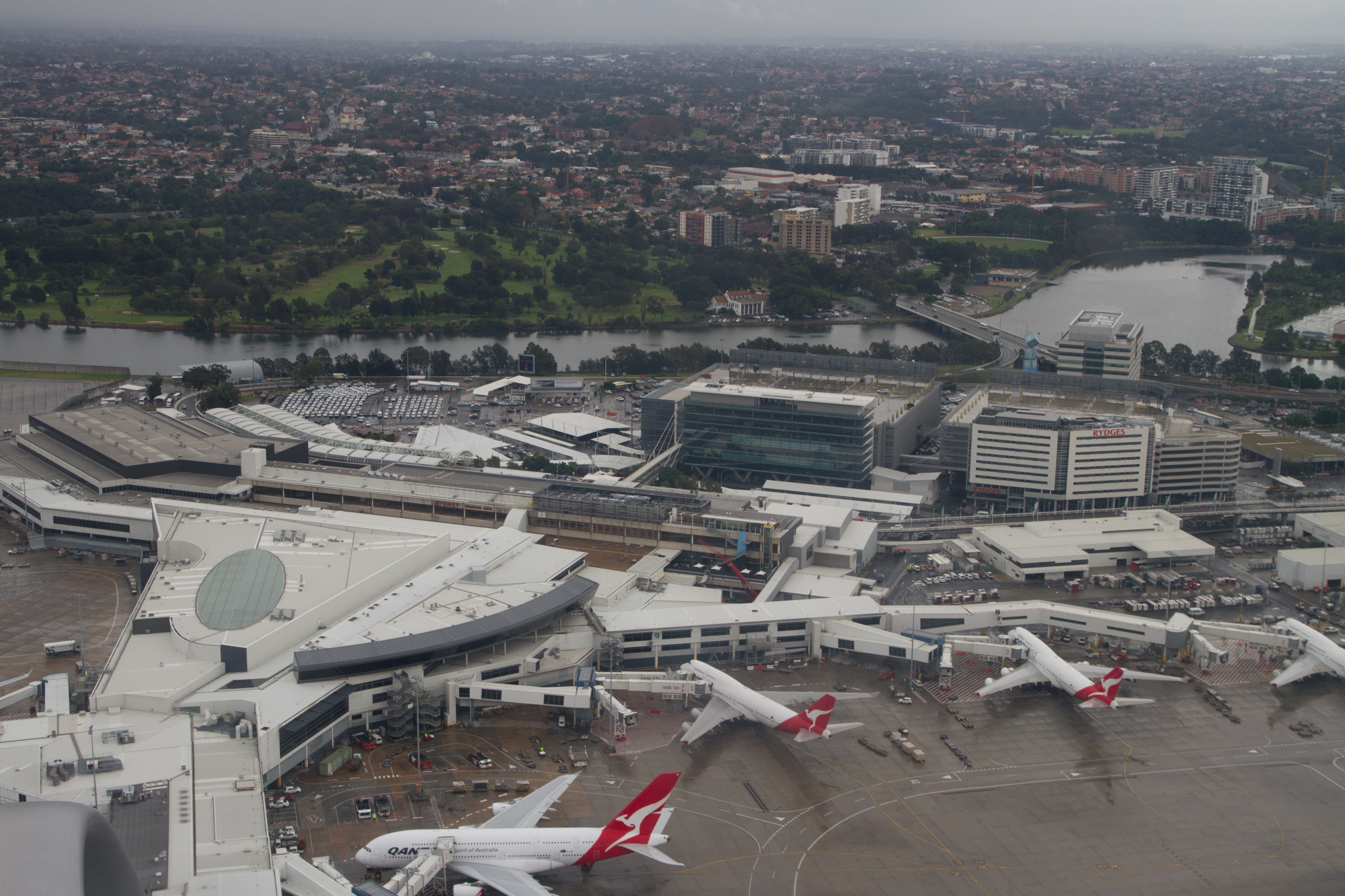 Sydney airport. International terminal